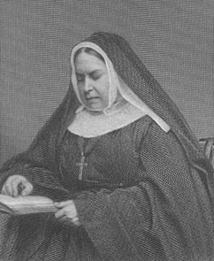 Harriet Carter, Mother Superior of the Community of St. John Baptist